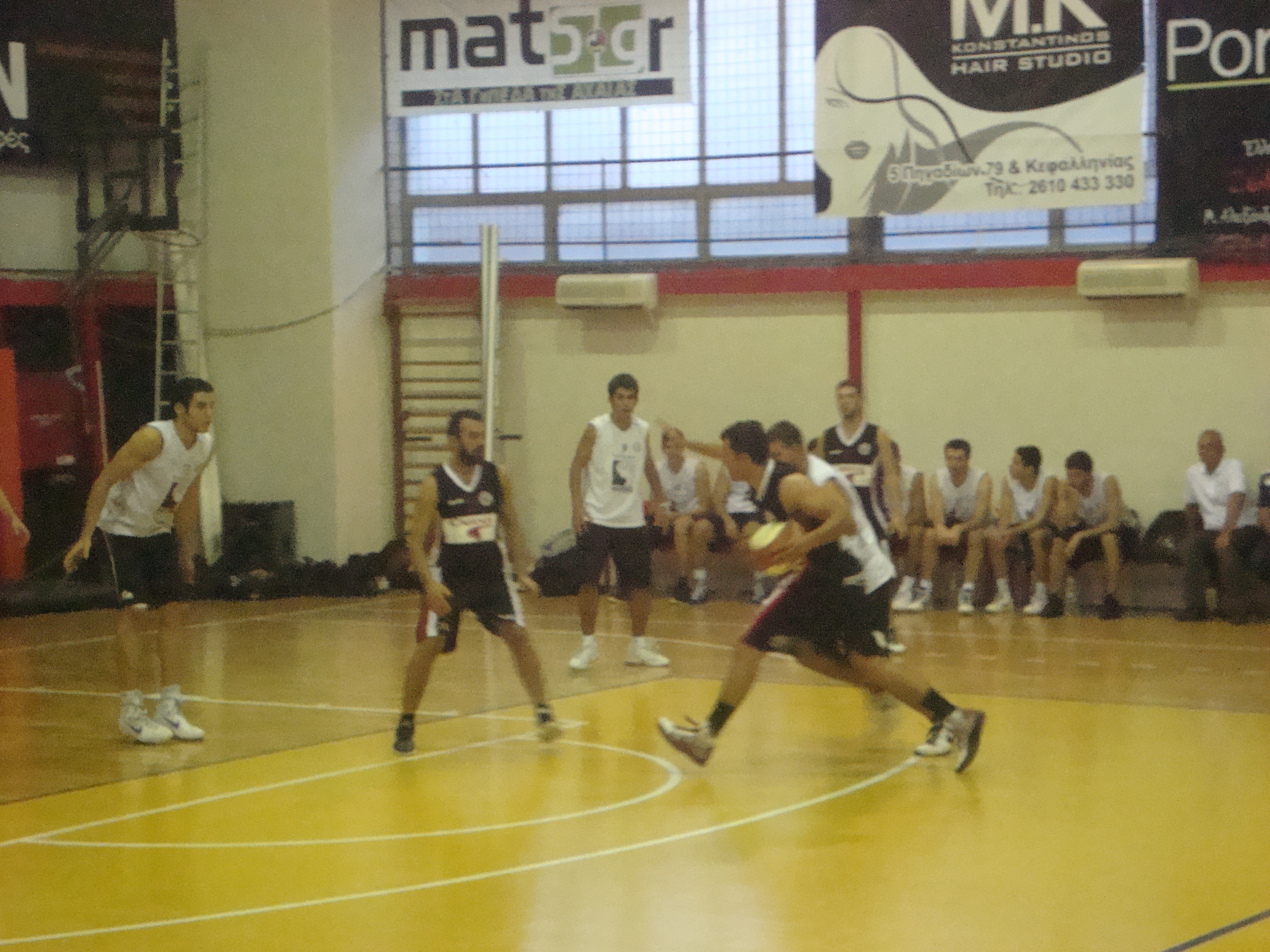 Basketball Tournament "D. Nezeritis" 2011, Panachaiki 1891 White Apolloniada, Bluck Sfiga